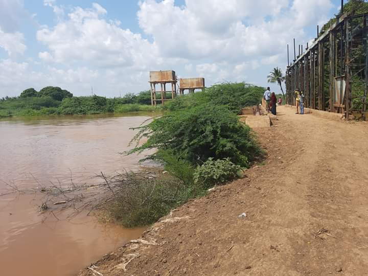 Kiryoli is an agricultural city, the majority of whose inhabitants depend on agriculture and sheep herders. This is an image with the theme "Africa on the Move or Transport" from: Somalia